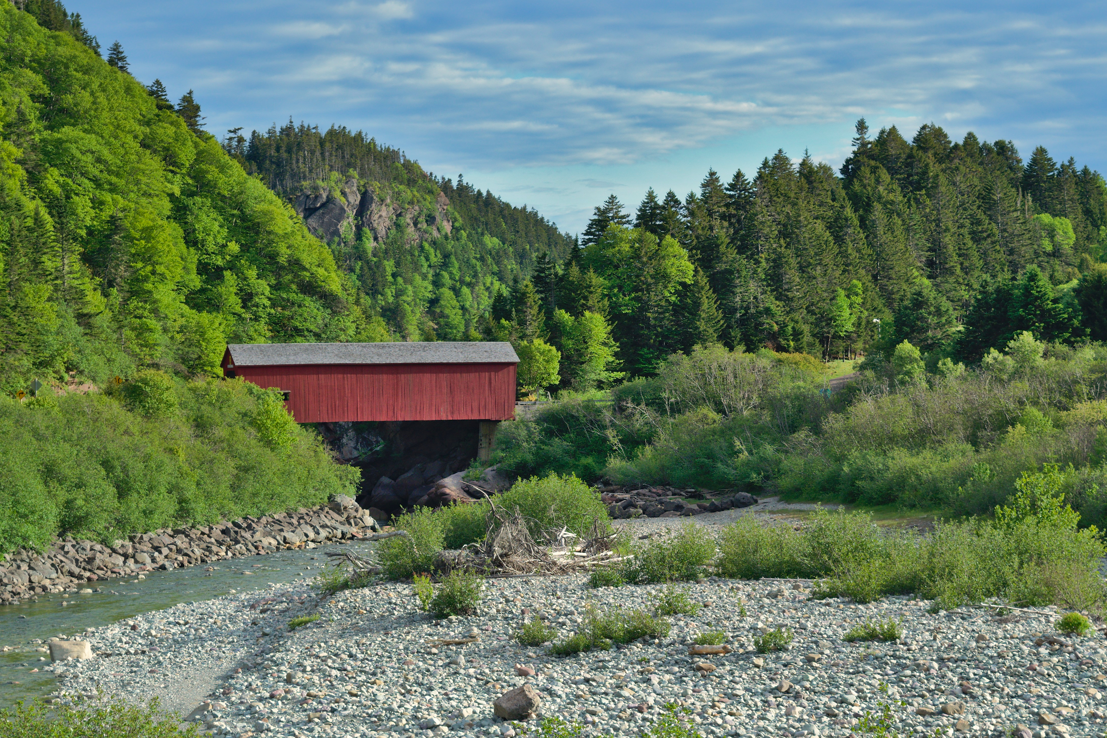 Point Wolfe Bridge, Fundy National Park.